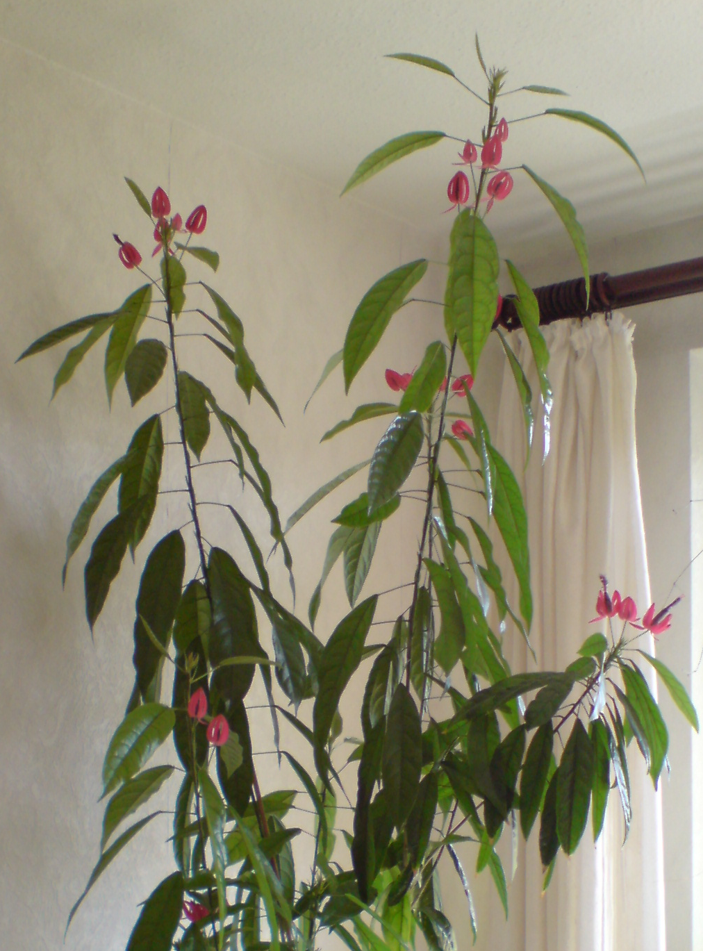 Pavonia x gledhillii or intermedia, often incorrectly P. multiflora, as indoor plant